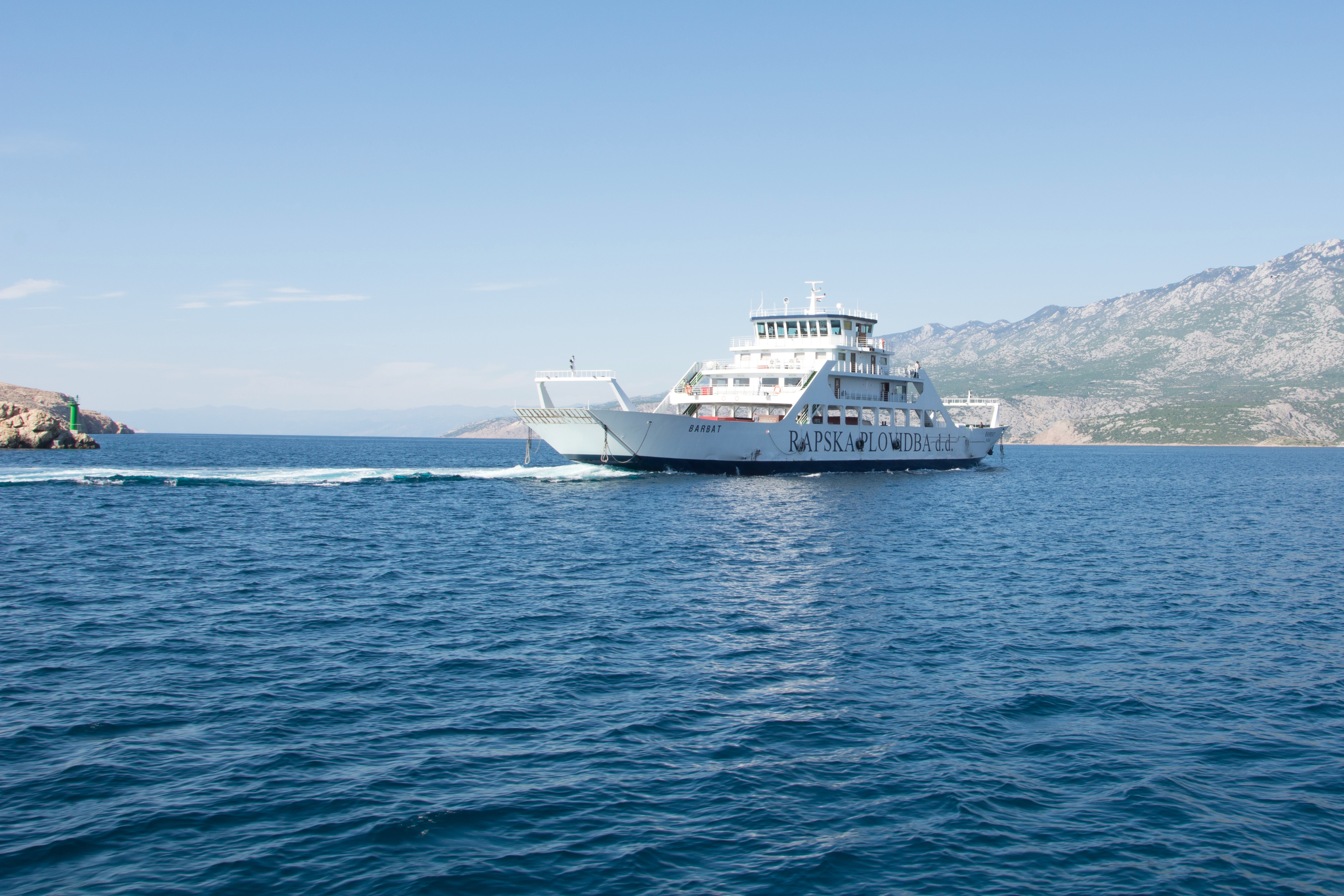 Ferry from Mišnjak to Stinica